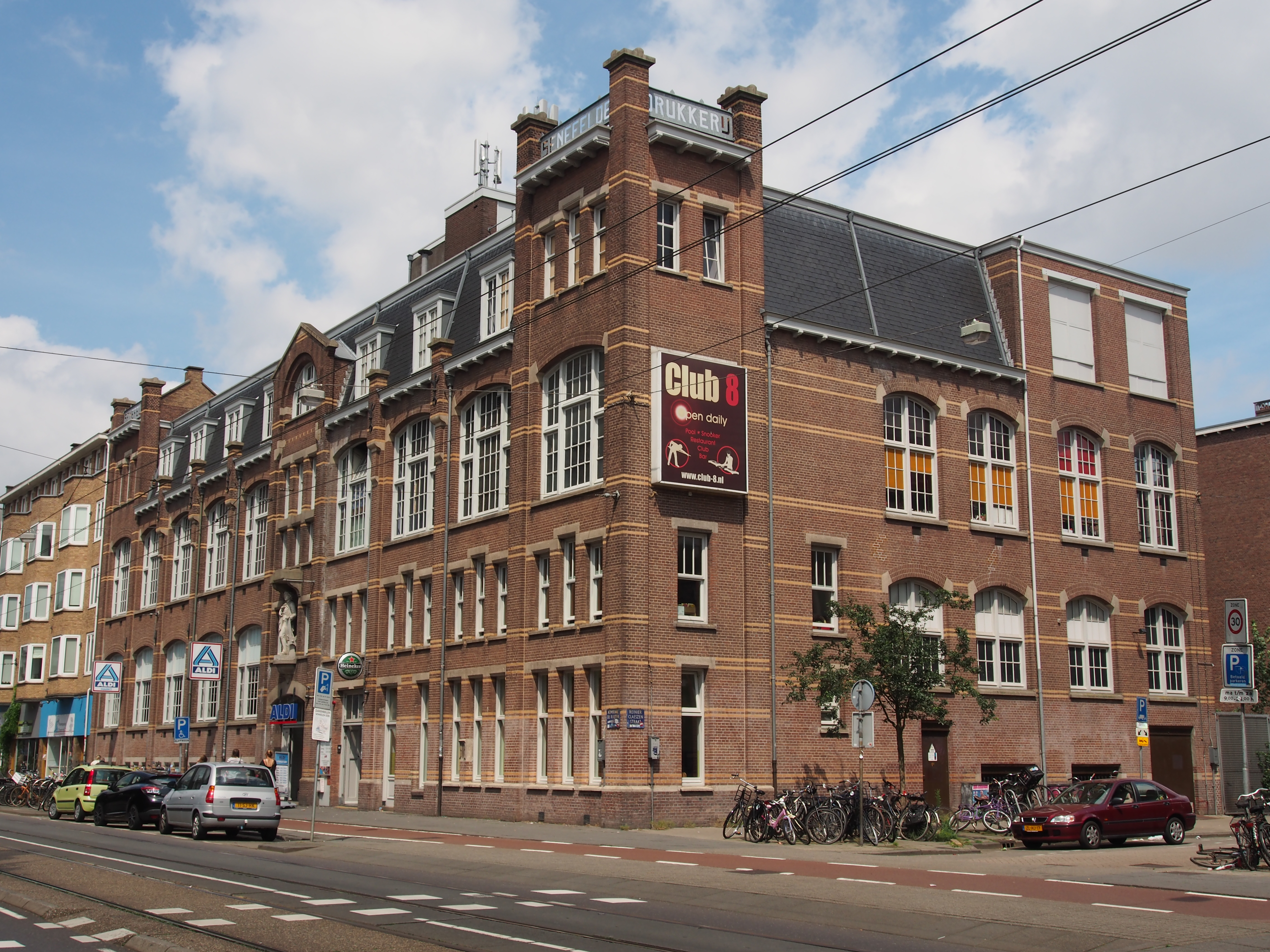 Photographed in Amsterdam.